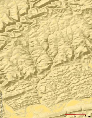 Map of Larrys Creek Watershed in Lycoming County, Pennsylvania, United States